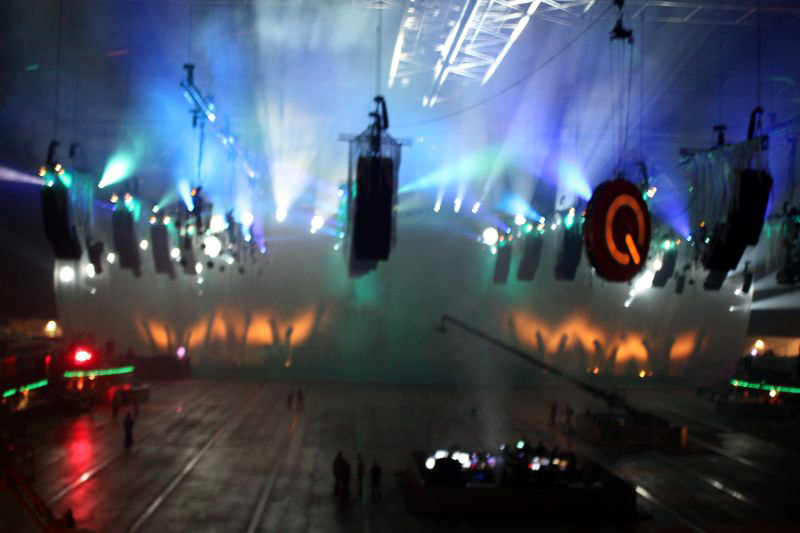 Qlimax 2009 at Gelredome in Arnhem. 40 minutes beforce the entrance